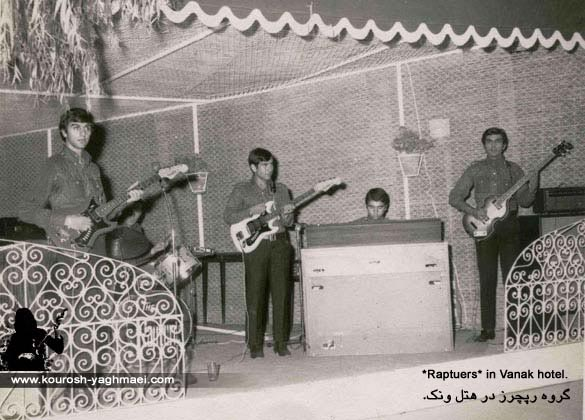 1960s photograph of a Tehran based musical group